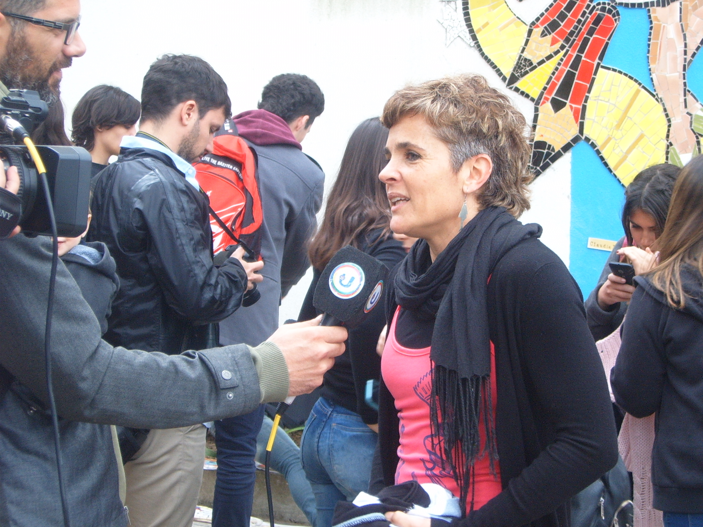 A reporter from the TV channel of the National University of La Plata.